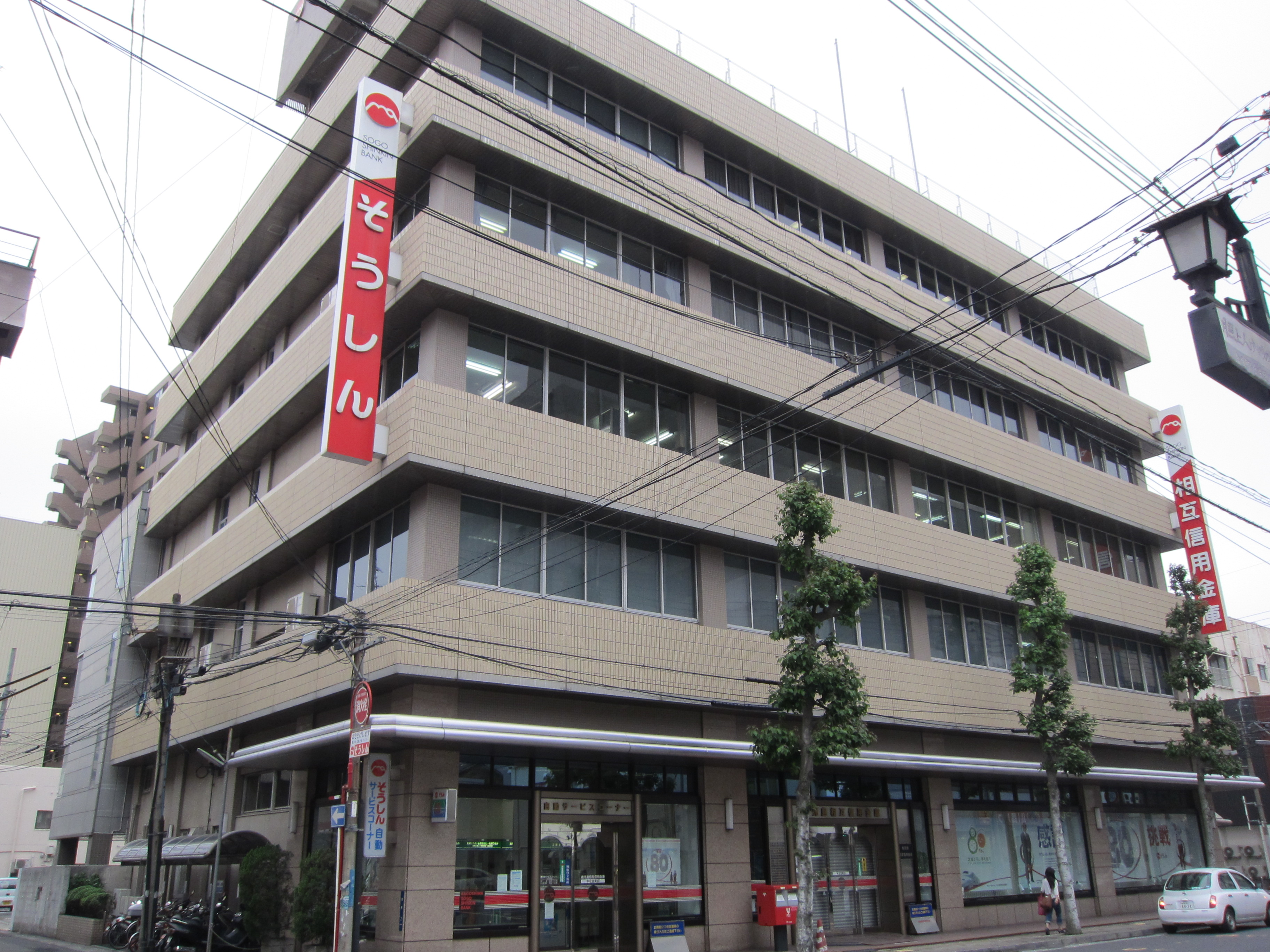 Kagoshima Sogo Shinkin Bank